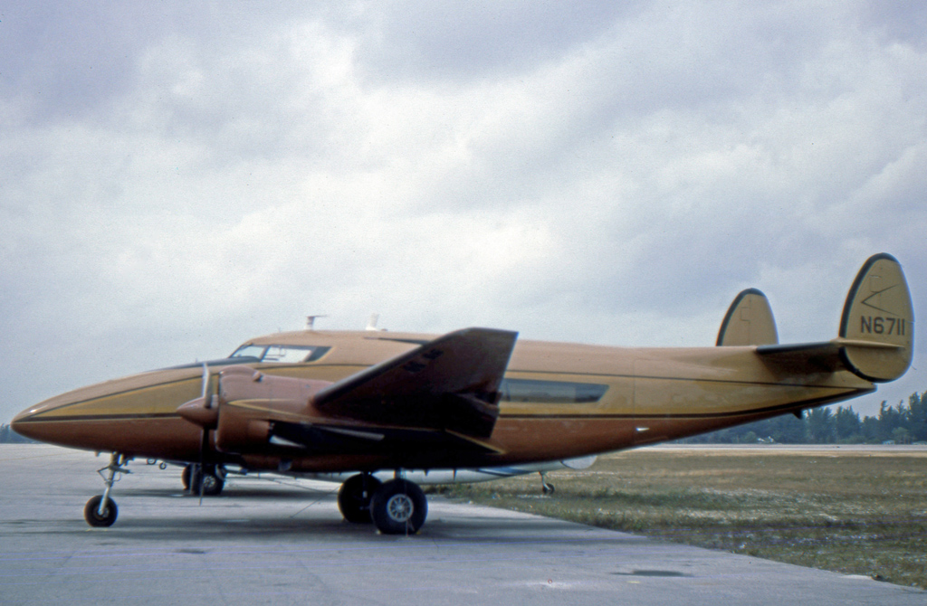 Lockheed 18 Lodestar N6711 converted to a tri-gear Howard 250. At Opa Locka Airport, Miami, FL in 1981.